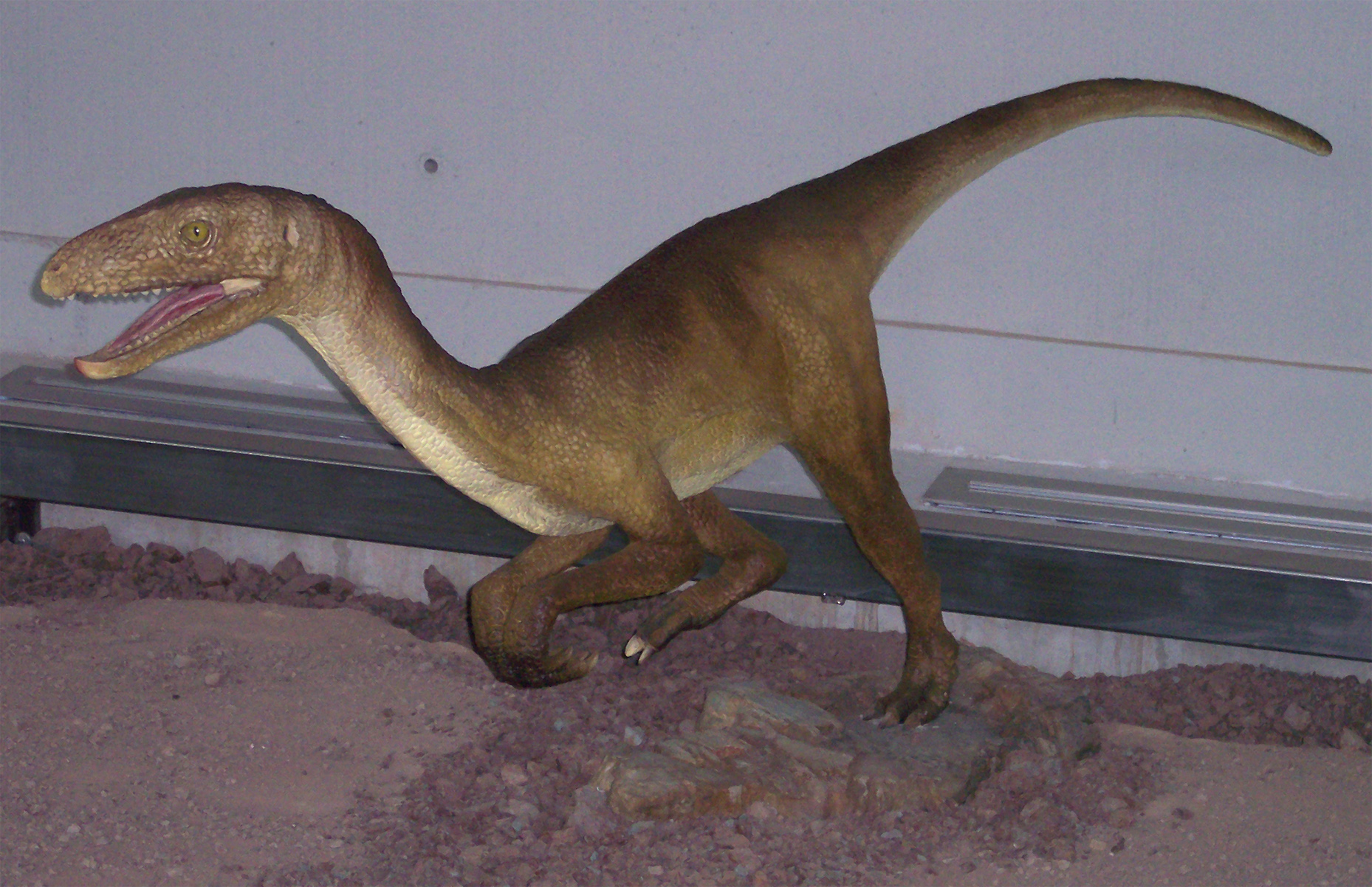 Life restoration of the Late Triassic dinosaur relative Silesaurus opolensis in the Paleontological Pavilion in the JuraPark of Krasiejów, Upper Silesia, Poland